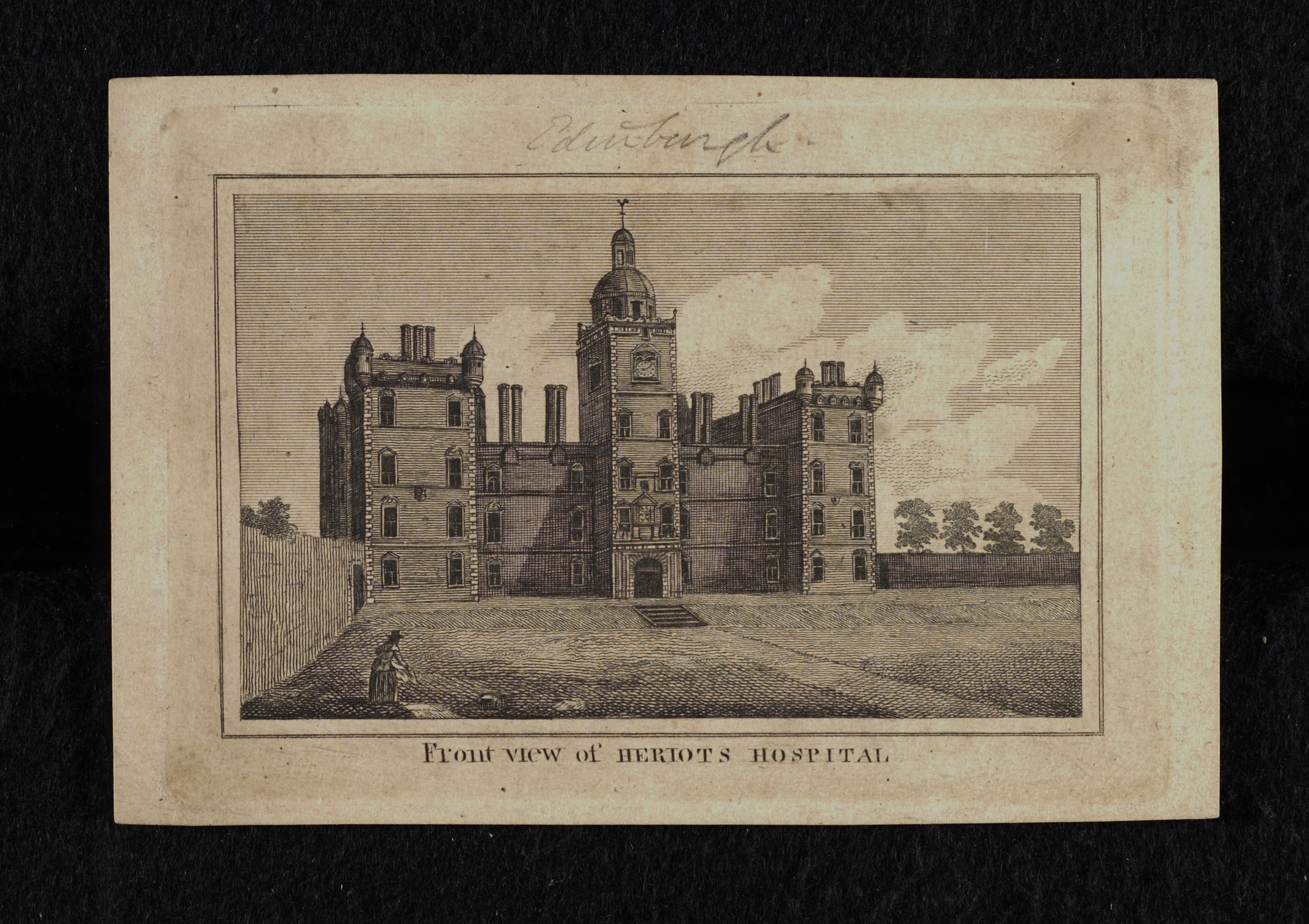 Front view of Heriots Hospital